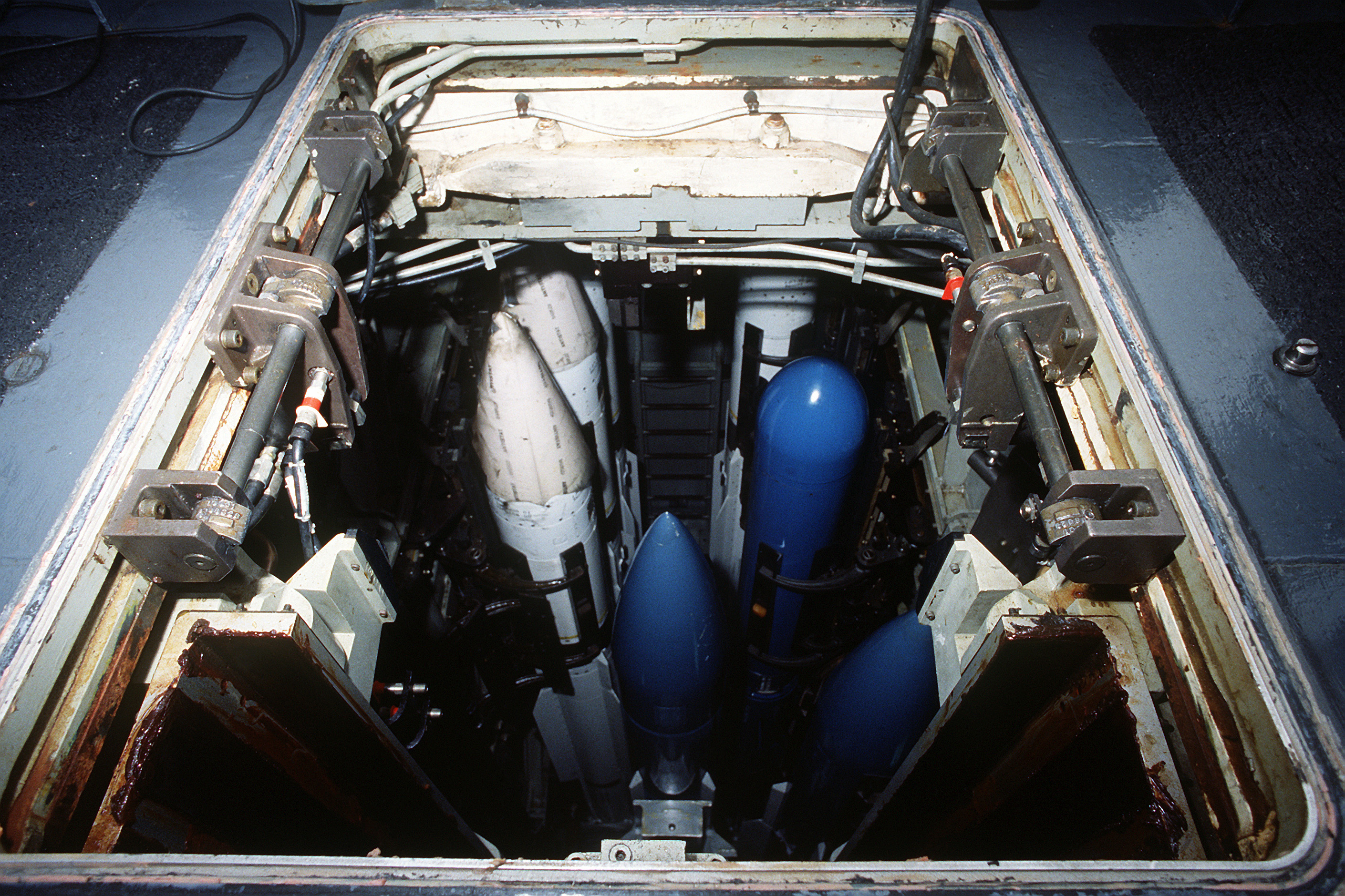 DN-ST-94-00394 A view through the loading arm door of various missiles in the magazine of the aft Mark 26 missile launcher aboard the nuclear-powered guided missile cruiser USS ARKANSAS (CGN-41). Photographer's Name: PH1 Williamson Location: NAVAL AIR STATION/ALAMEDA Date Shot: 9/23/1993 Date Posted: unknown VIRIN: DN-ST-94-00394